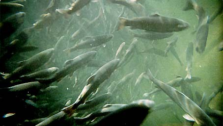 view from underwater window atoll lab photo Uwe Kils